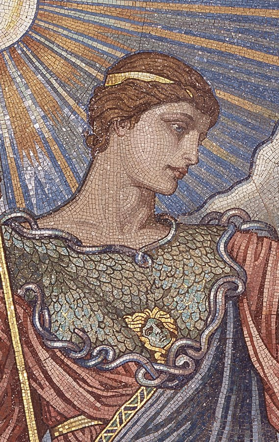 detail from Image:Minerva-Vedder-Highsmith.jpeg